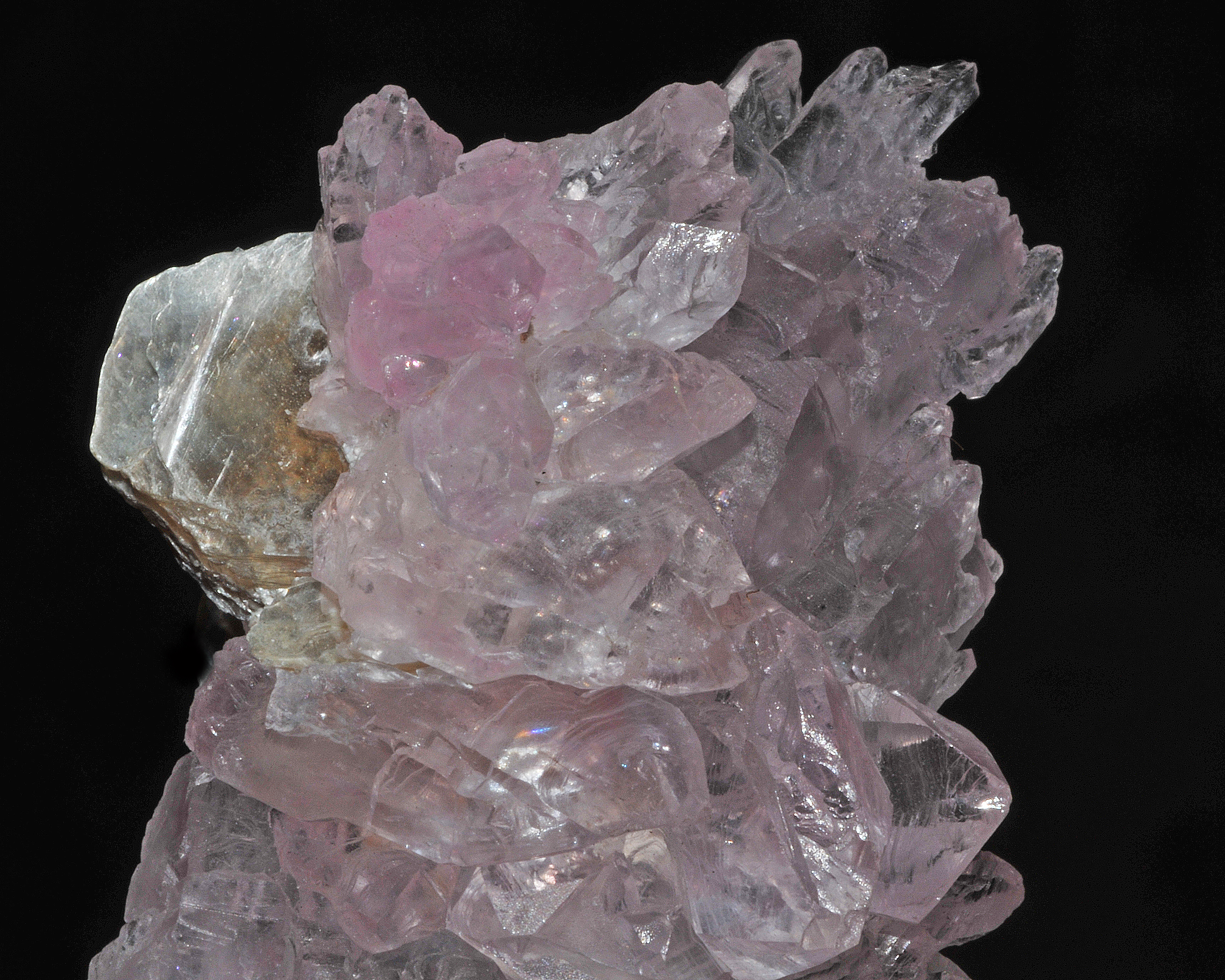 crystals of quartz var. rose quartz, crystals of mica var. muscovite : Lavra da Ilha, Taquaral, Itinga, Jequitinhonha valley, Minas Gerais, Brazil